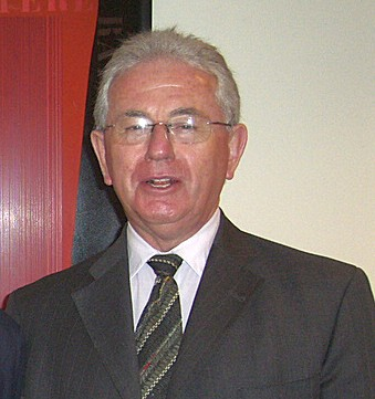 New Zealand politician Dr Michael Cullen, cropped and adjusted from flickr photo by Sam Abraham